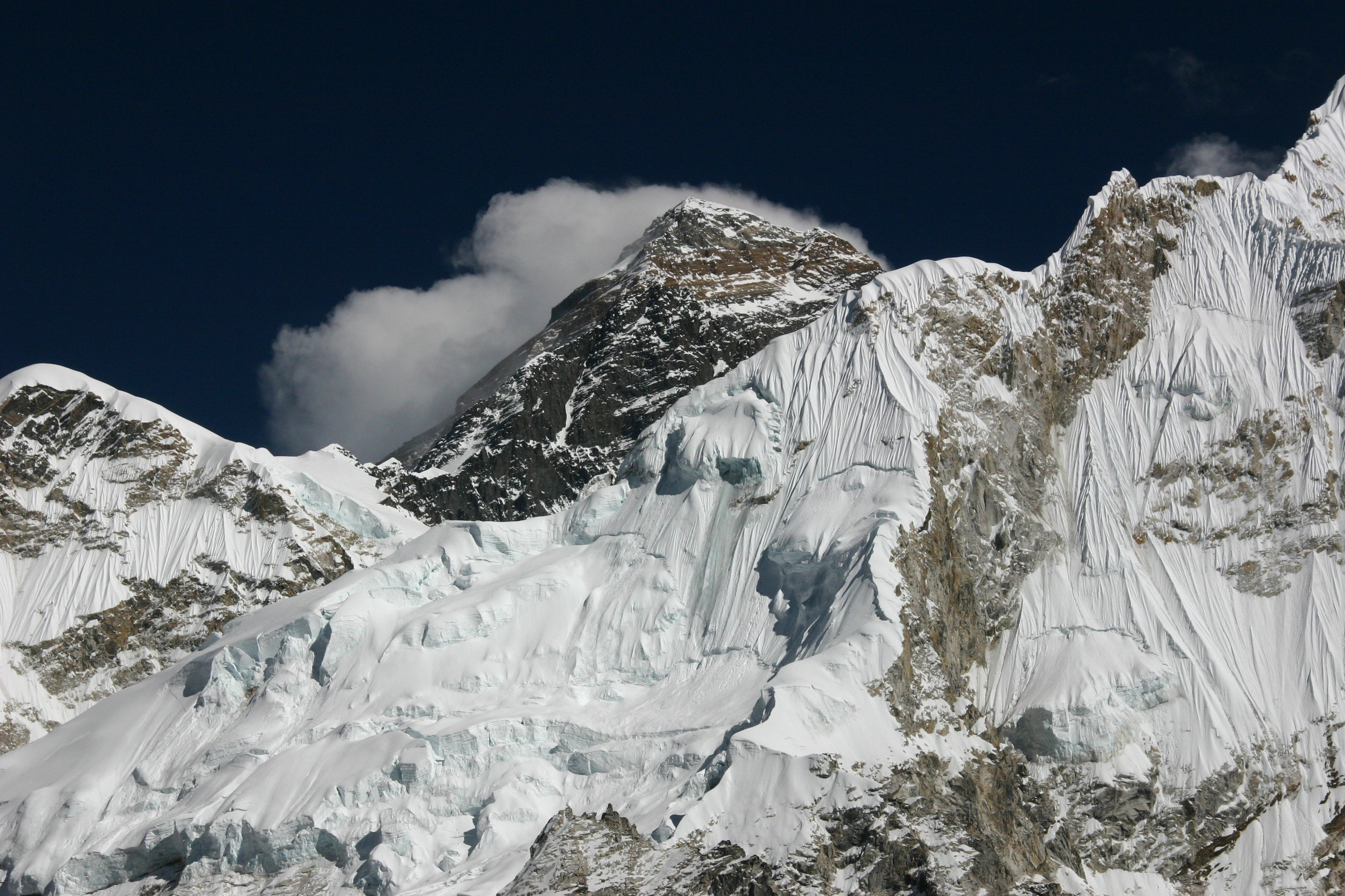 Village in the VDC Khumjung in Solukhumbu District in Nepal